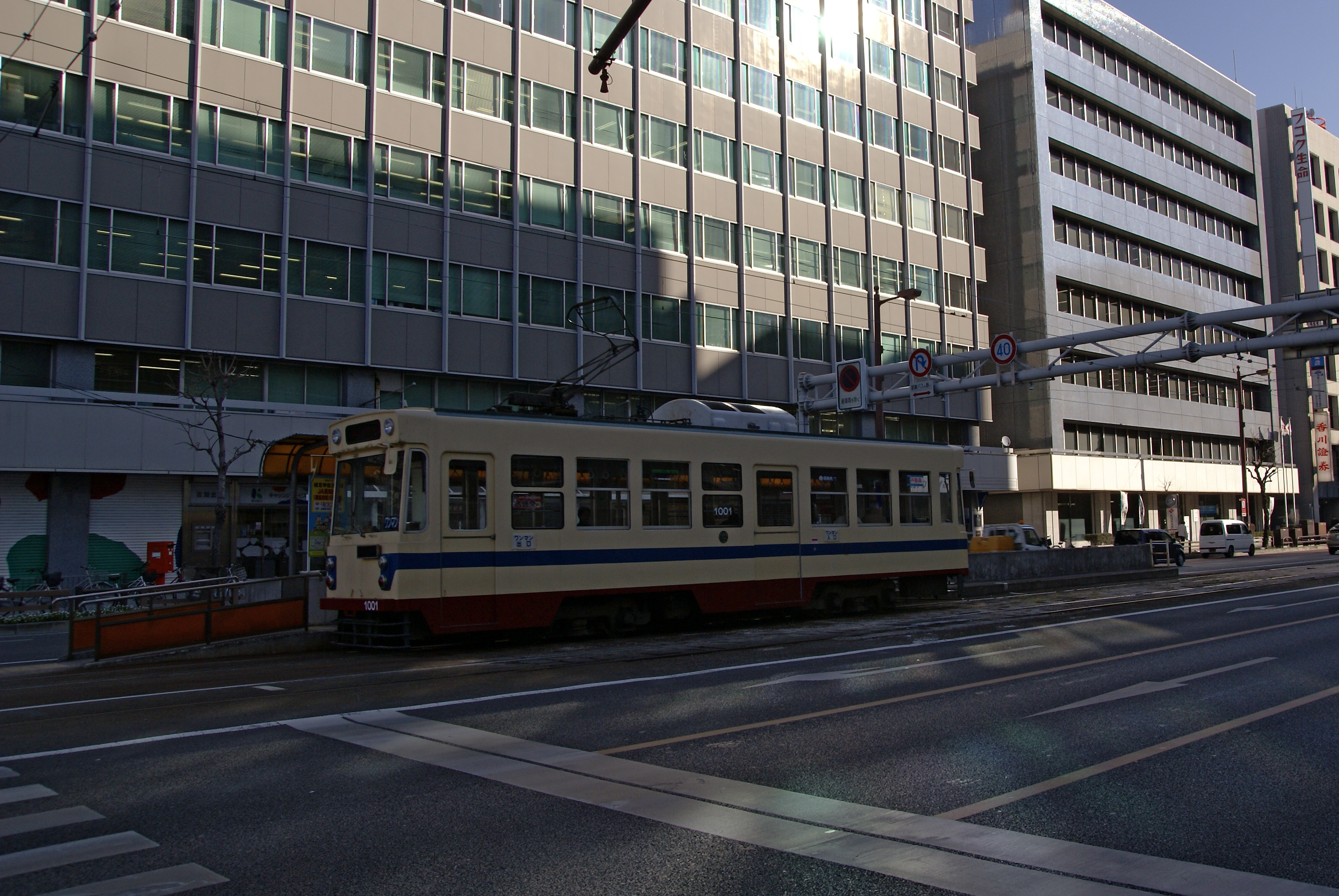 Kencho-mae Station in Kochi, Kochi prefecture, Japan